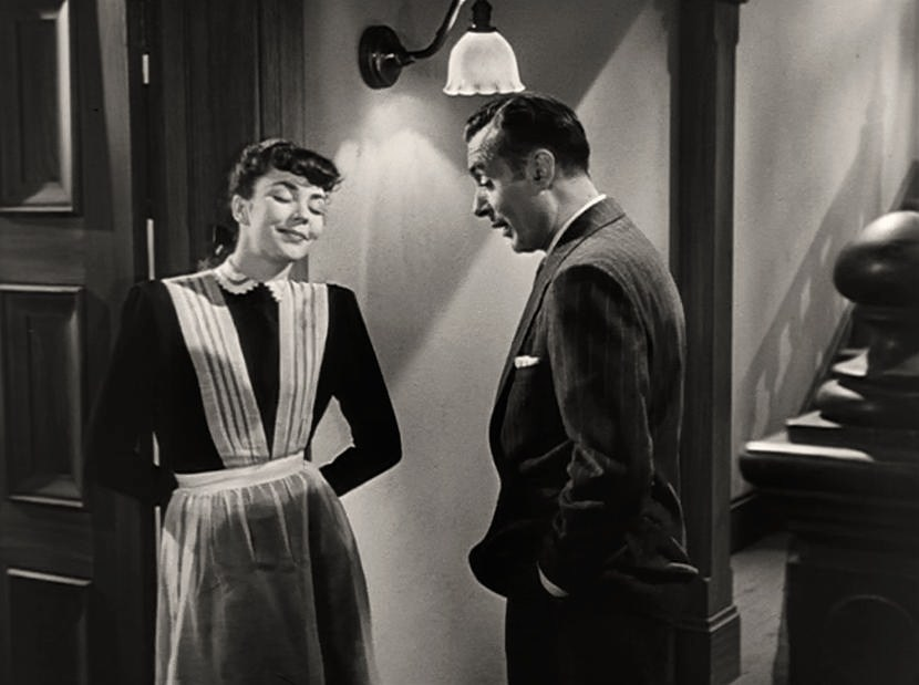 Jennifer Jones & Charles Boyer in Cluny Brown - trailer (cropped screenshot)